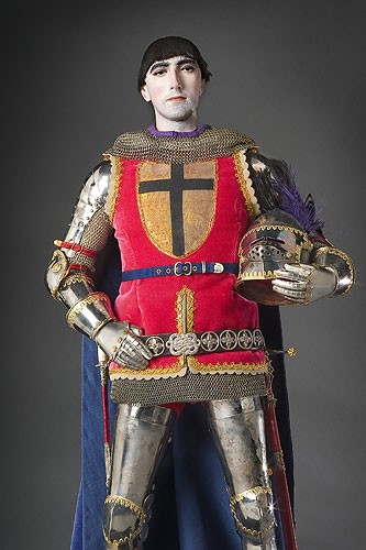 Historical Mixed Media Figure of Gilles de Retz produced by artist/historian George S. Stuart and photographed by Peter d'Aprix. This image, from the George S. Stuart Gallery of Historical Figures® archive ( is provided for all uses with appropriate attribution. Any derivatives must be shared in the same manner. Contributor mharrsch is webmaster for the gallery site.